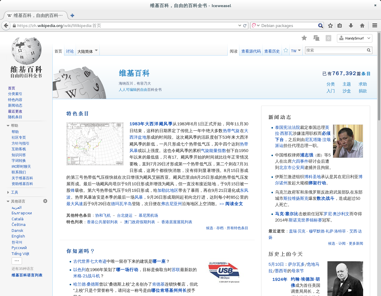 Iceweasel Aurora 30.0a2 displaying Simplified Chinese Wikipedia Main Page.